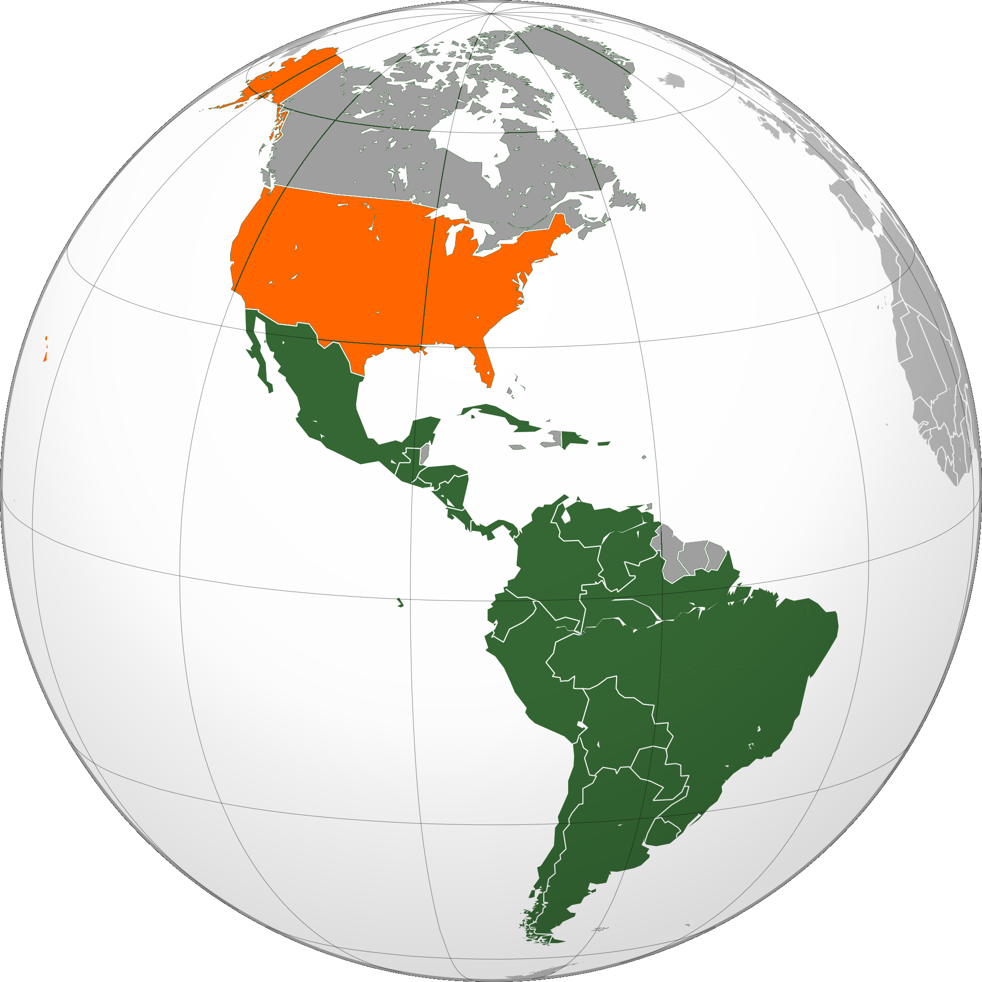 Bilateral map of USA and Latin America in ortographic projection